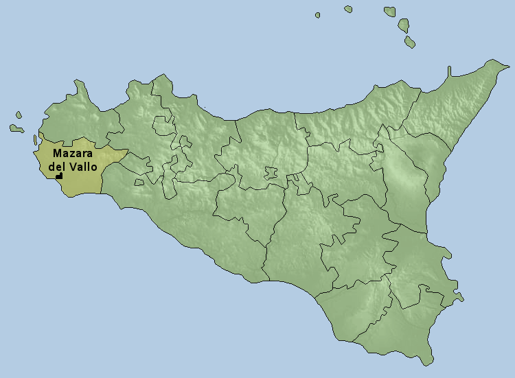 Map of the diocese of Mazara del Vallo (^^: Cathedral of a metropolitan diocese, –^: Cathedral of a suffragan diocese, ^–: Co-cathedral)